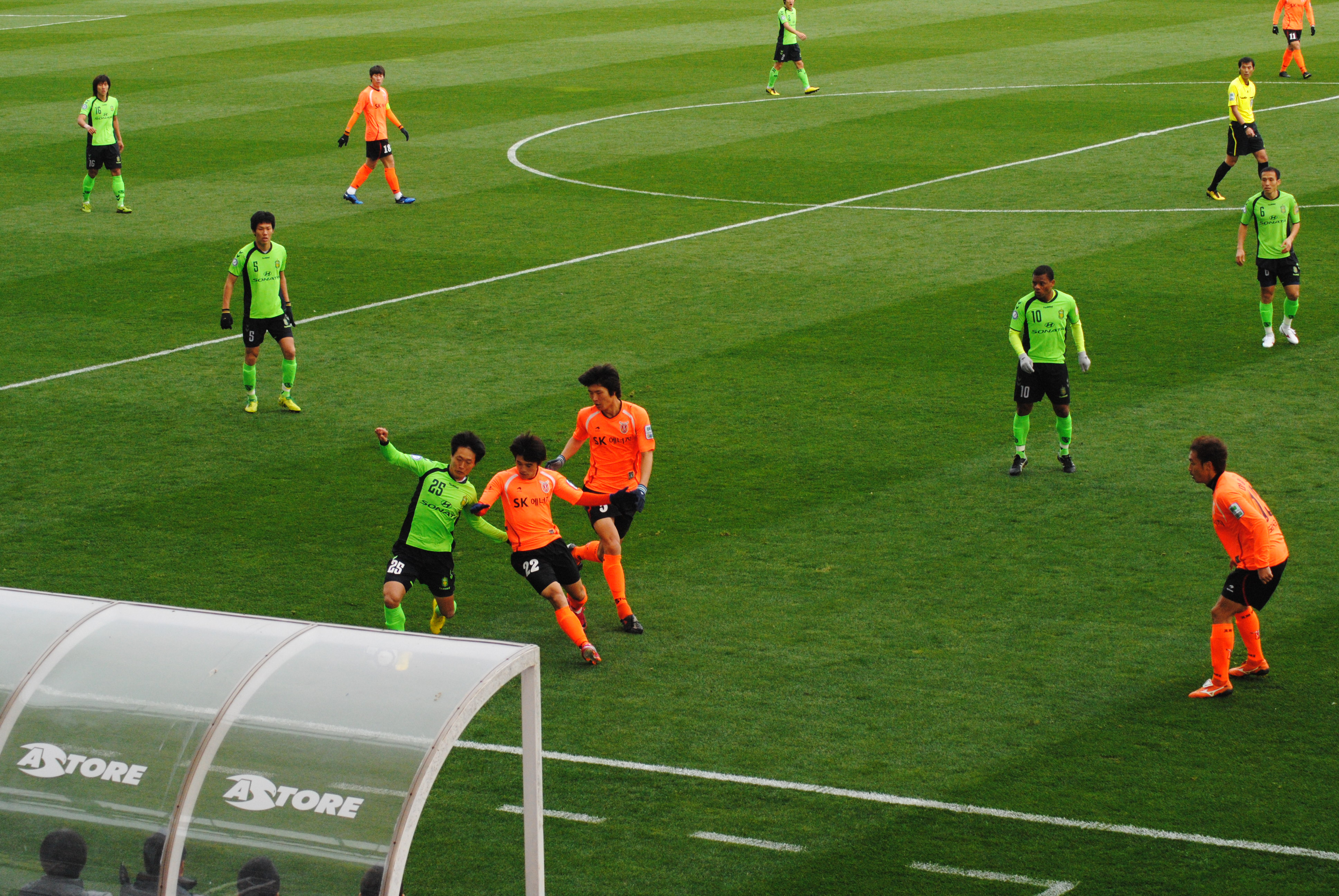 The football game of Jeju United FC Vs Jeonbuk Hyundai Motors Football Club at 28th Nov. 2010 at Jeju Wolrdcup stadium